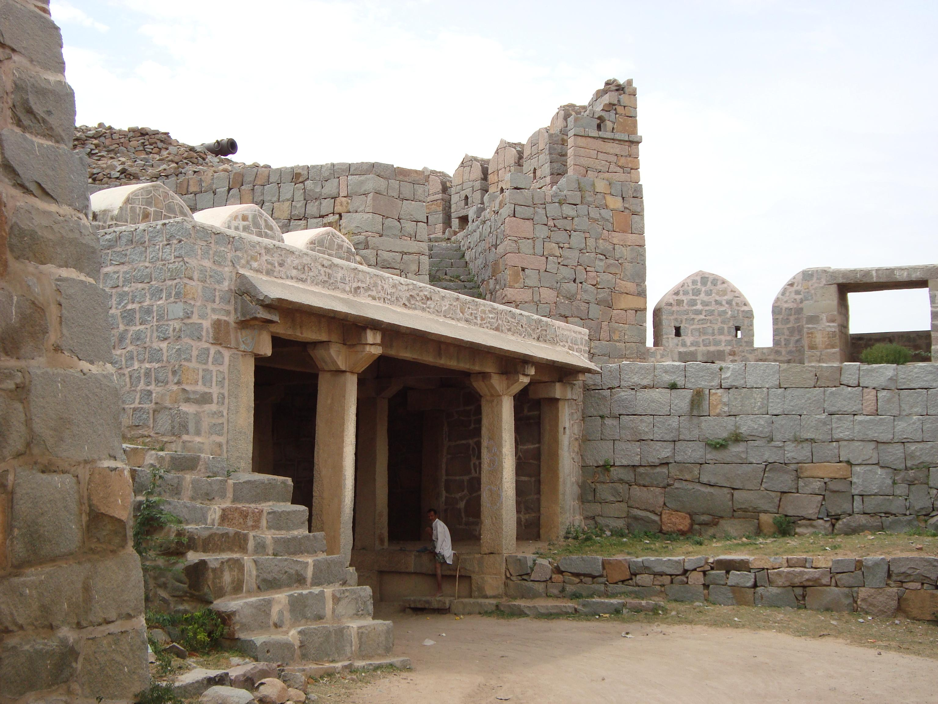 Mudgal fort Source and Author : Manjunath Doddamani, Gajendragad / Hubli, Karnataka, India